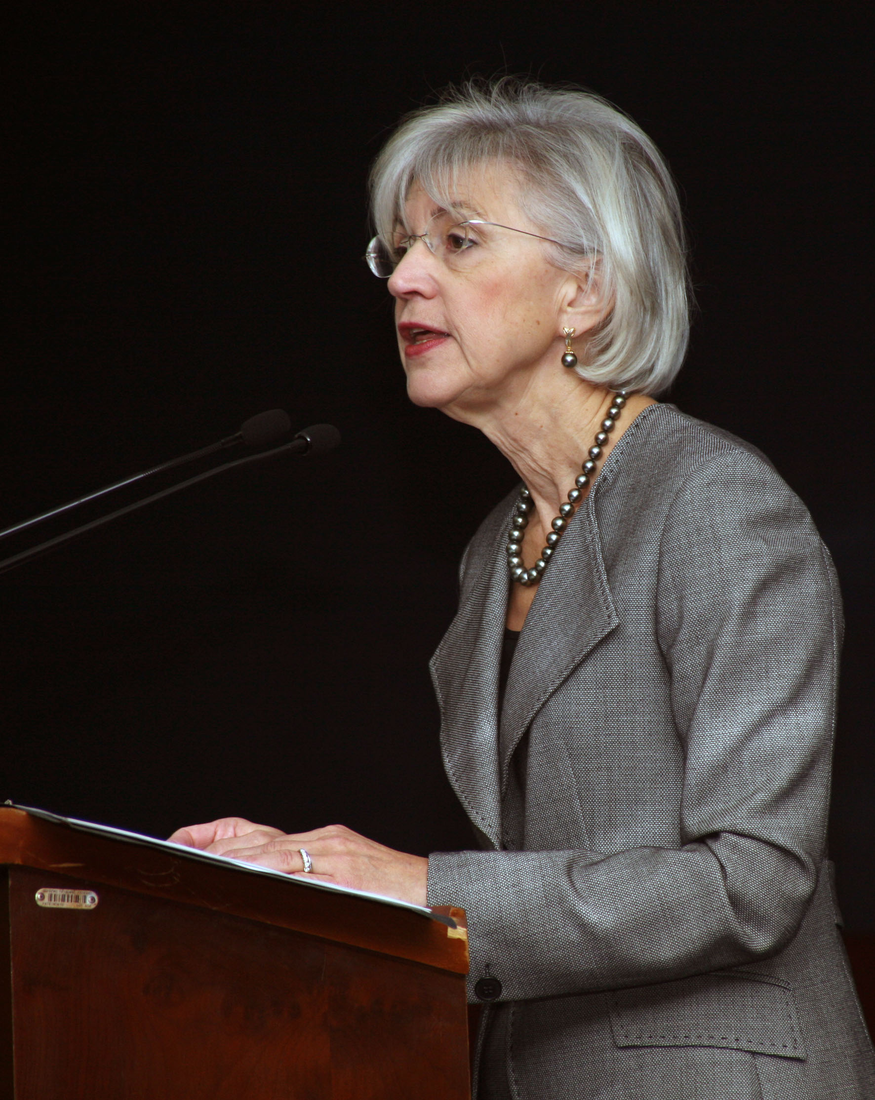 Beverley McLachlin, the Chief Justice of the Supreme Court of Canada, speaks to the Federal supreme Court of Brazil